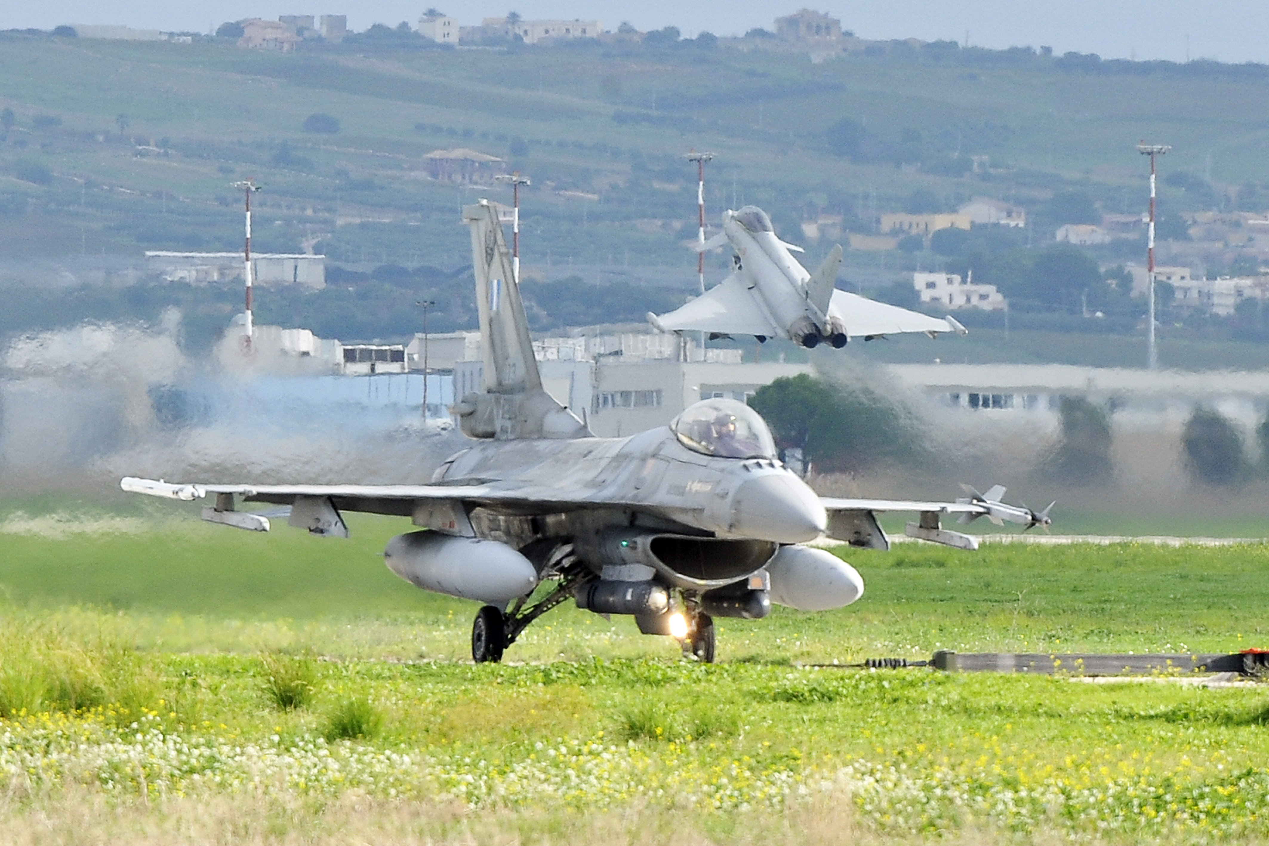 A Greek Air Force F-16 on the taxiway and an Italian Air Force Typhoon taking off to return from a Composite Air Operations (COMAO) mission on October 27, 2015 during Trident Juncture 15. NATO photo by Antonio STELLATO